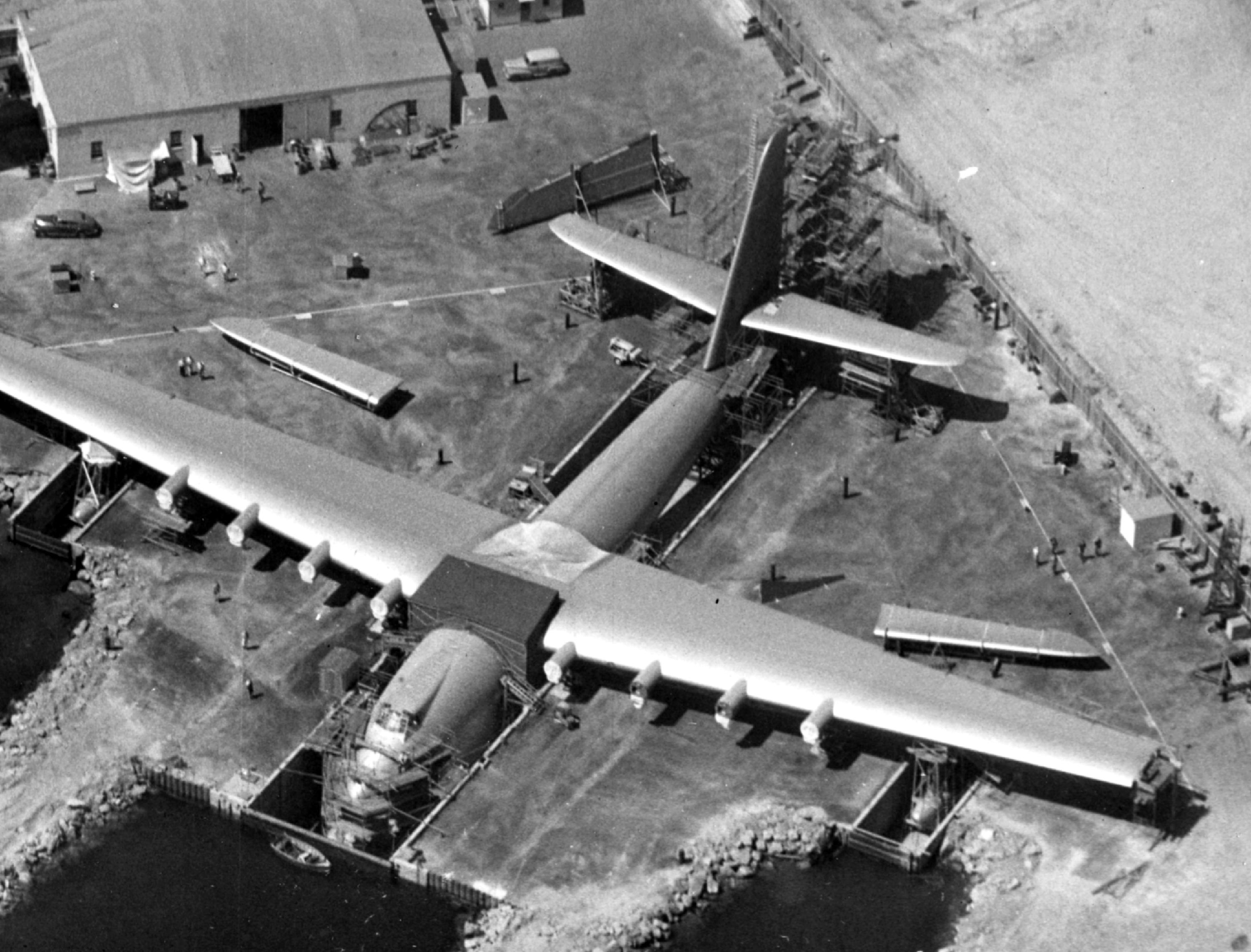 Spruce Goose construction.